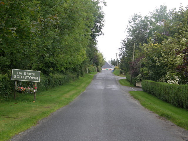 Entering Scotstown Entering Scotstown on the Bog Road